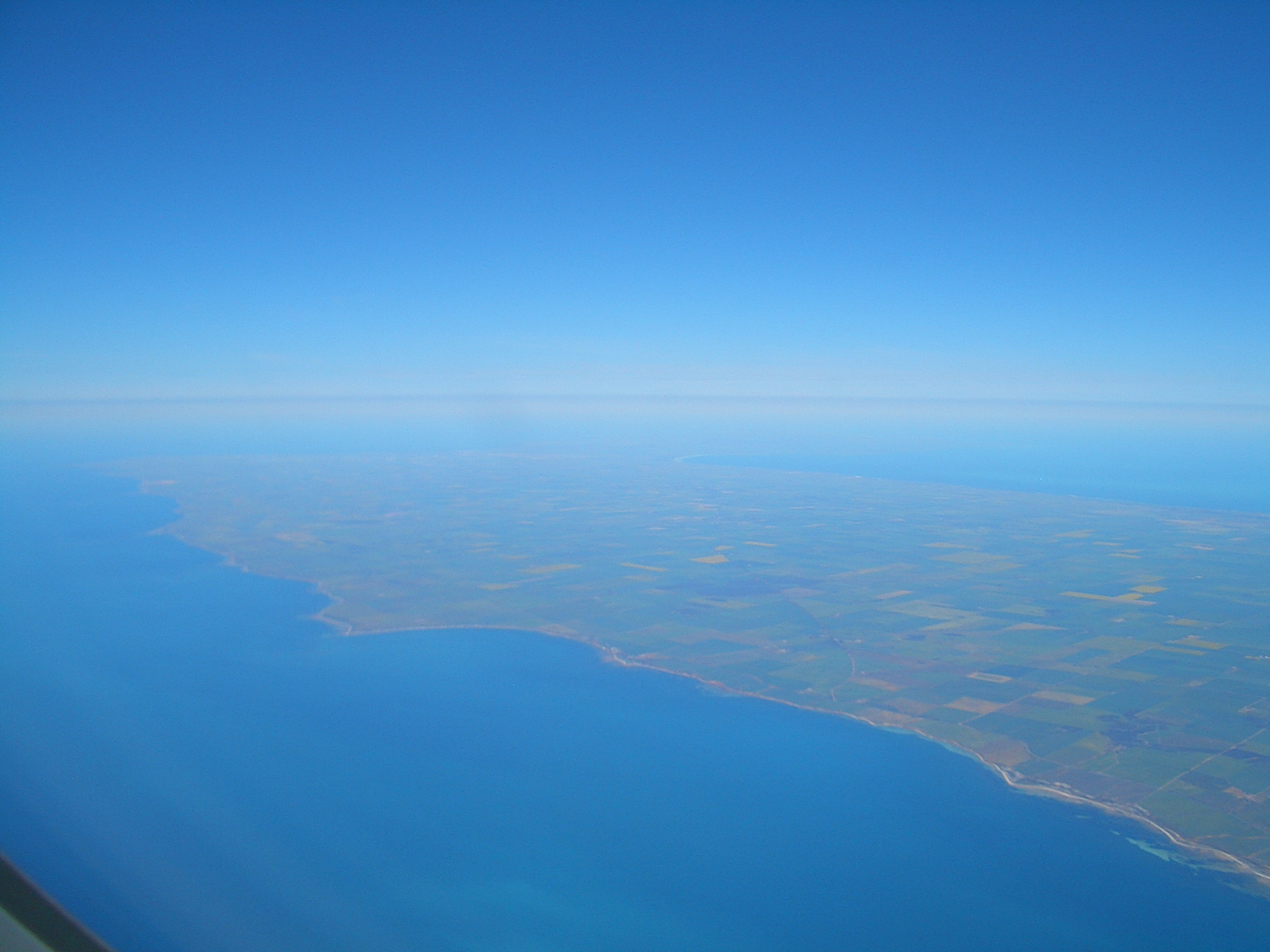 Aerial view of Yorke Peninsula, looking south or south-west. Ardrossan on Gulf St Vincent is in left front; the "boot" of Yorke Peninsula can be barely discerned near the horizon in the center